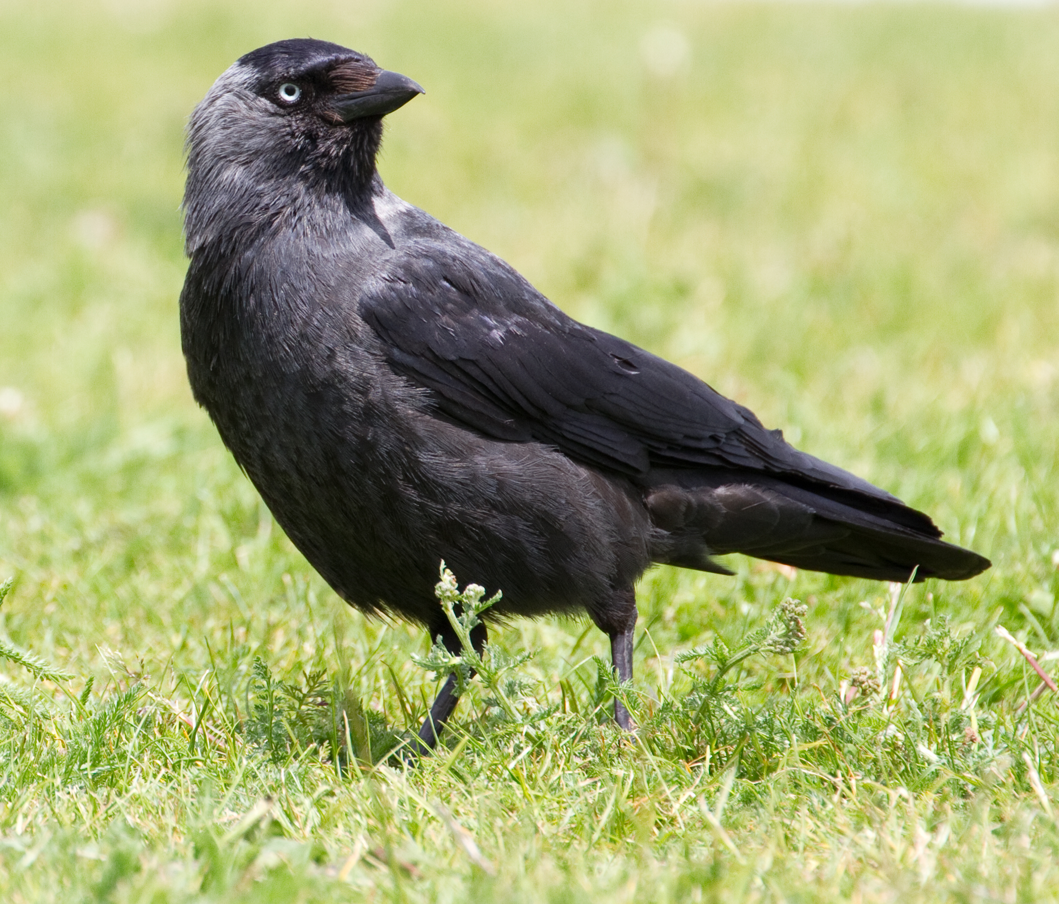 A Jackdaw in Shropshire, England.